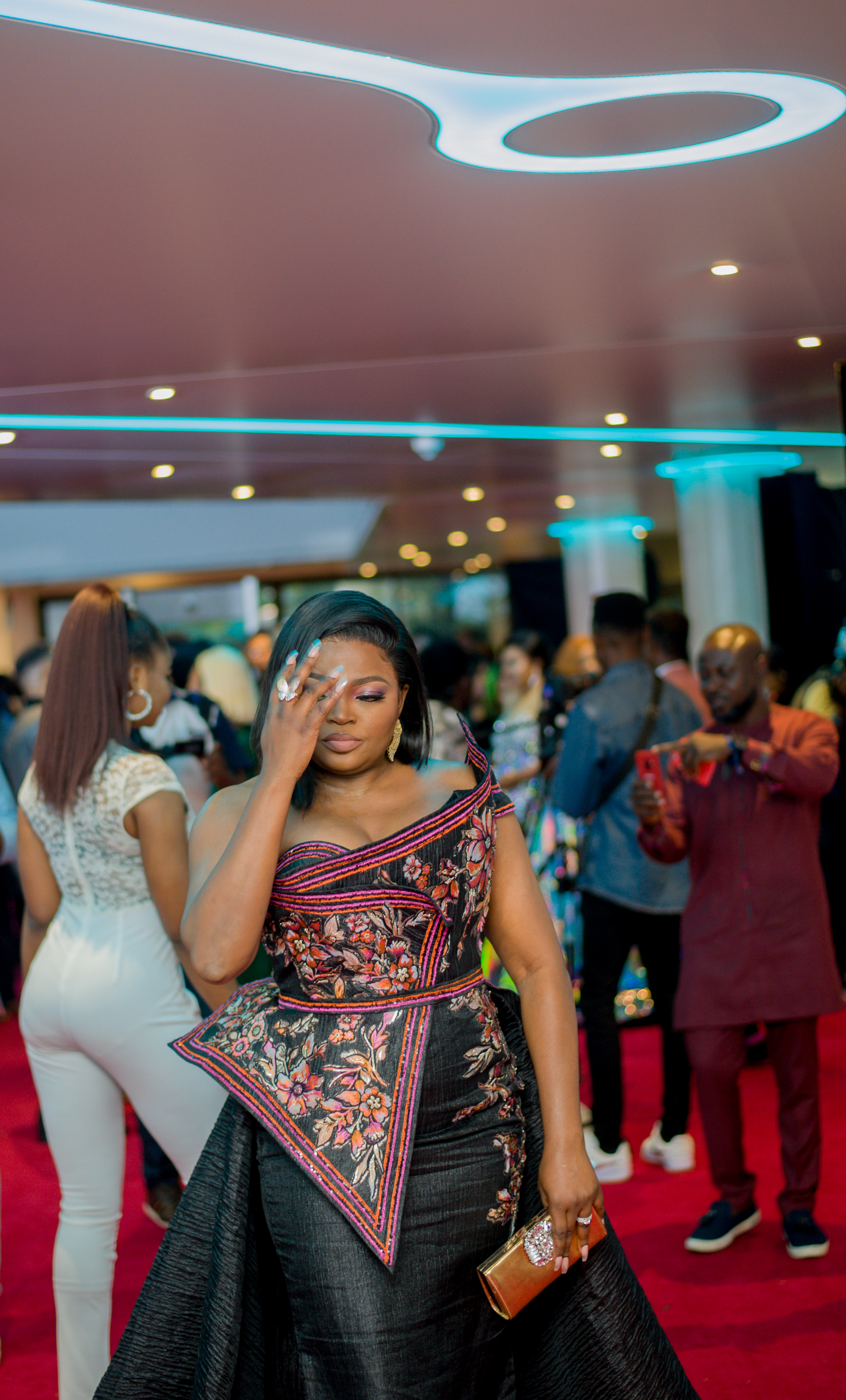 Pictures from AMVCA 2020